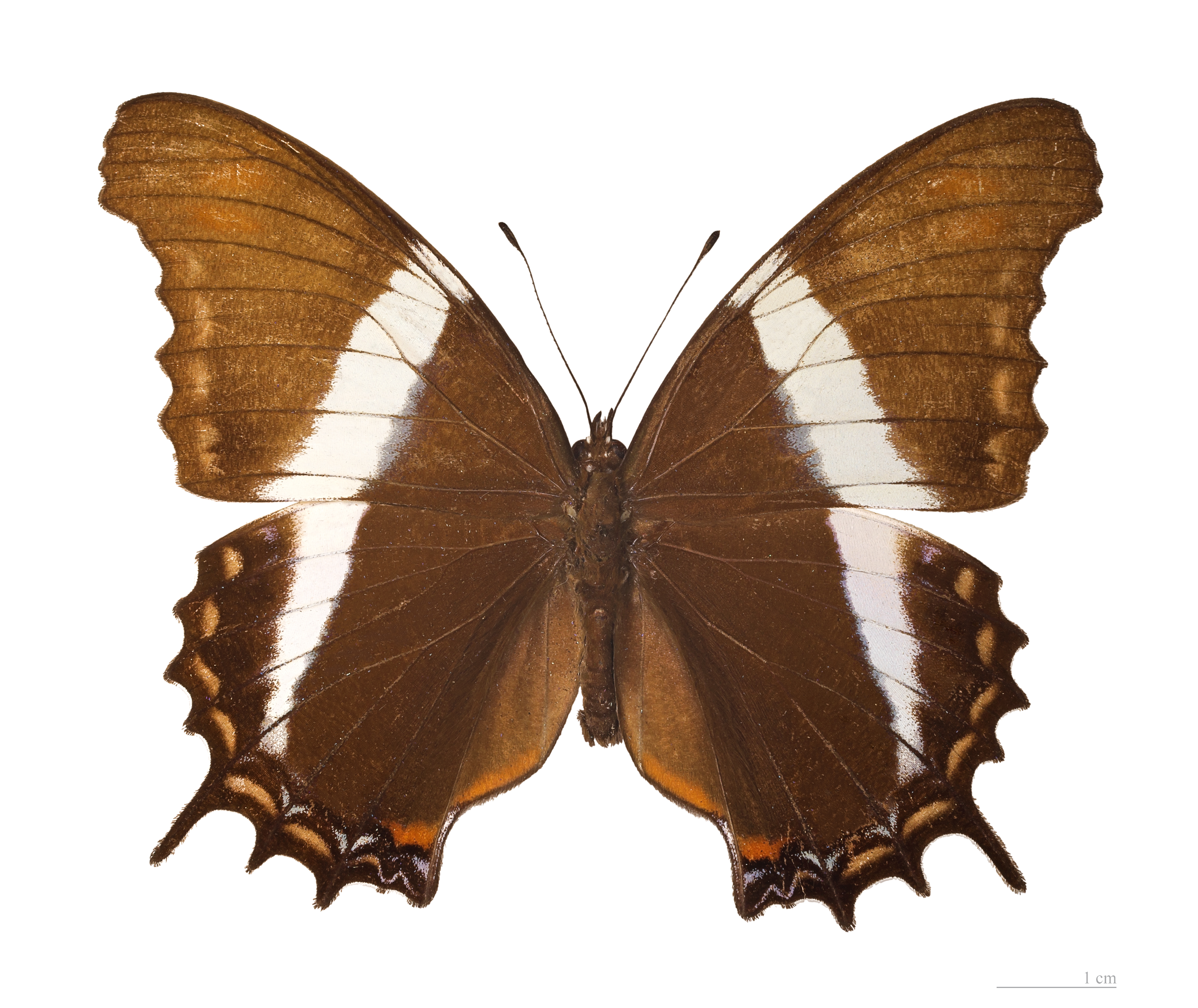 Broad-banded Page ♂ - Dorsal side Locality: San Jerónimo, Chiapas, Mexico